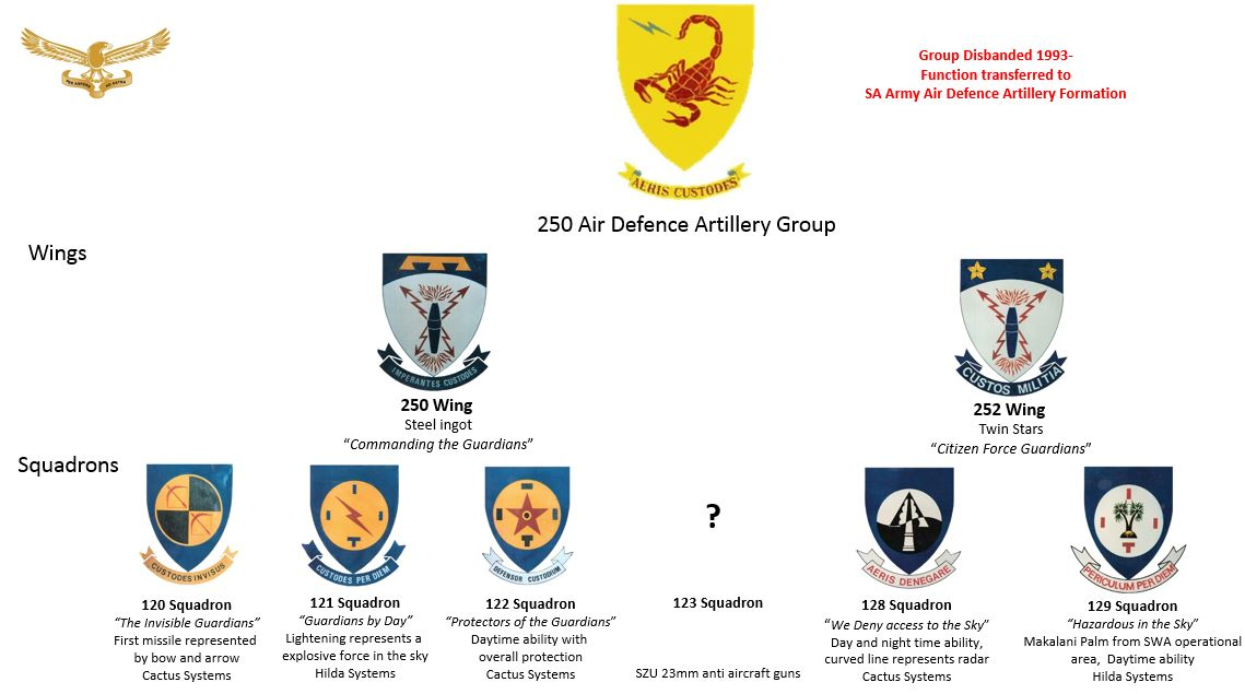 250 ADAG corrected structure